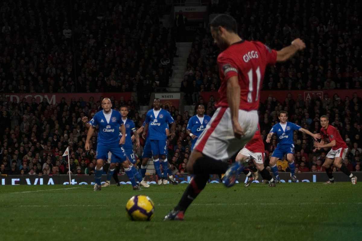 Ryan Giggs sends a free kick in against Everton. At Old Trafford, Manchester, November 2009.